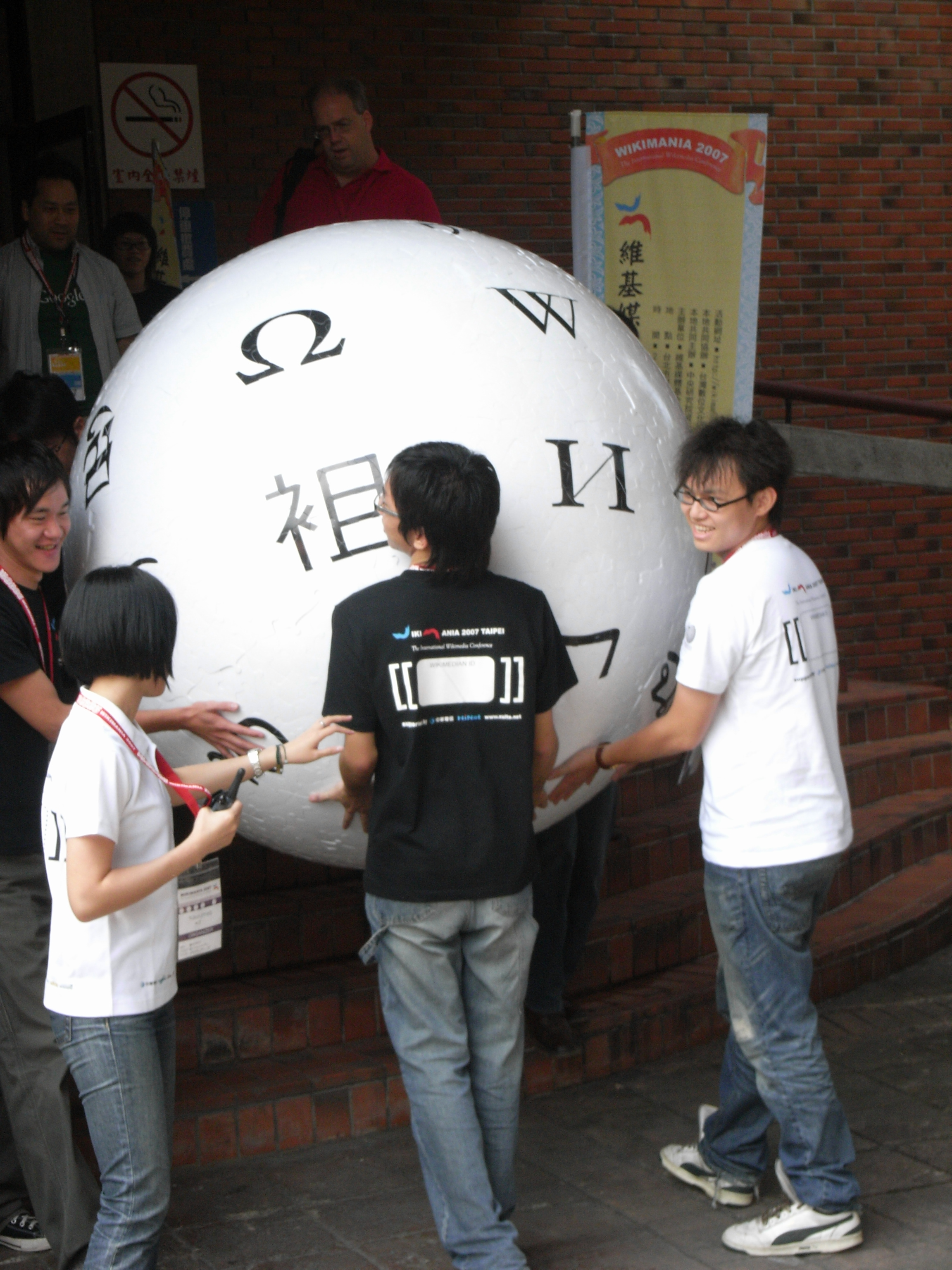 Moving the Wikiball